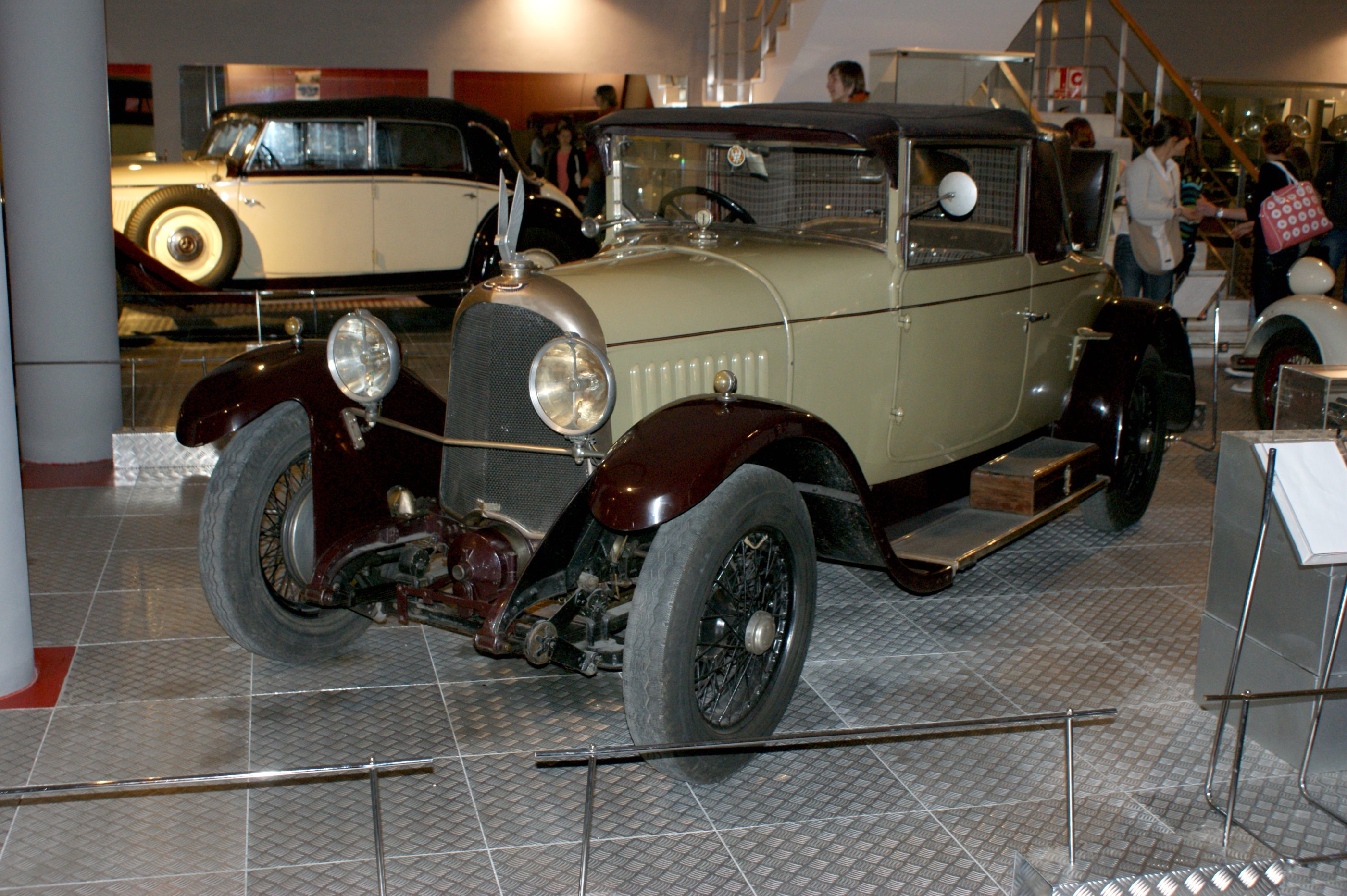 1927 Avions Voisin C7 10CV at the Salamanca Motor Museum, 04/08. 1551cc, 44hp, 1,350 were built.